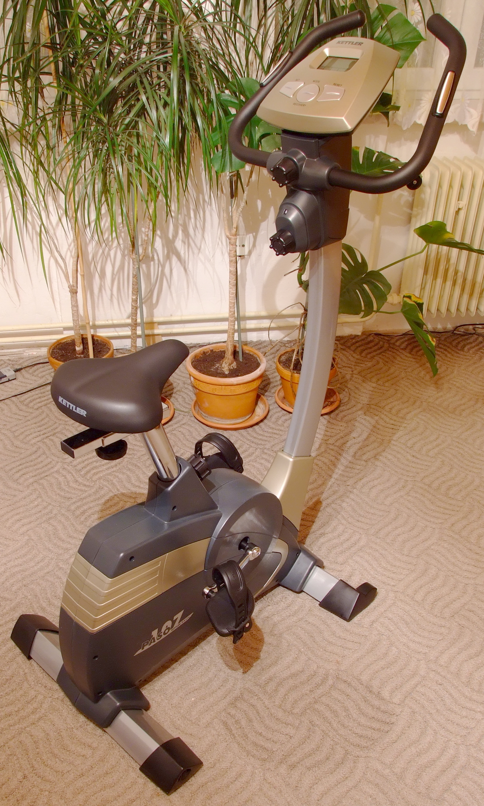 Stationary bicycle